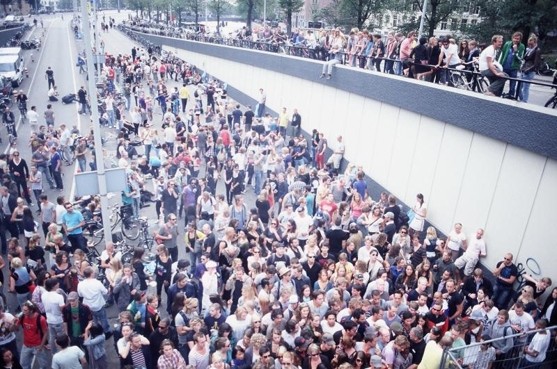 Pedestrians on the ramp of a car tunnel in Amsterdam.